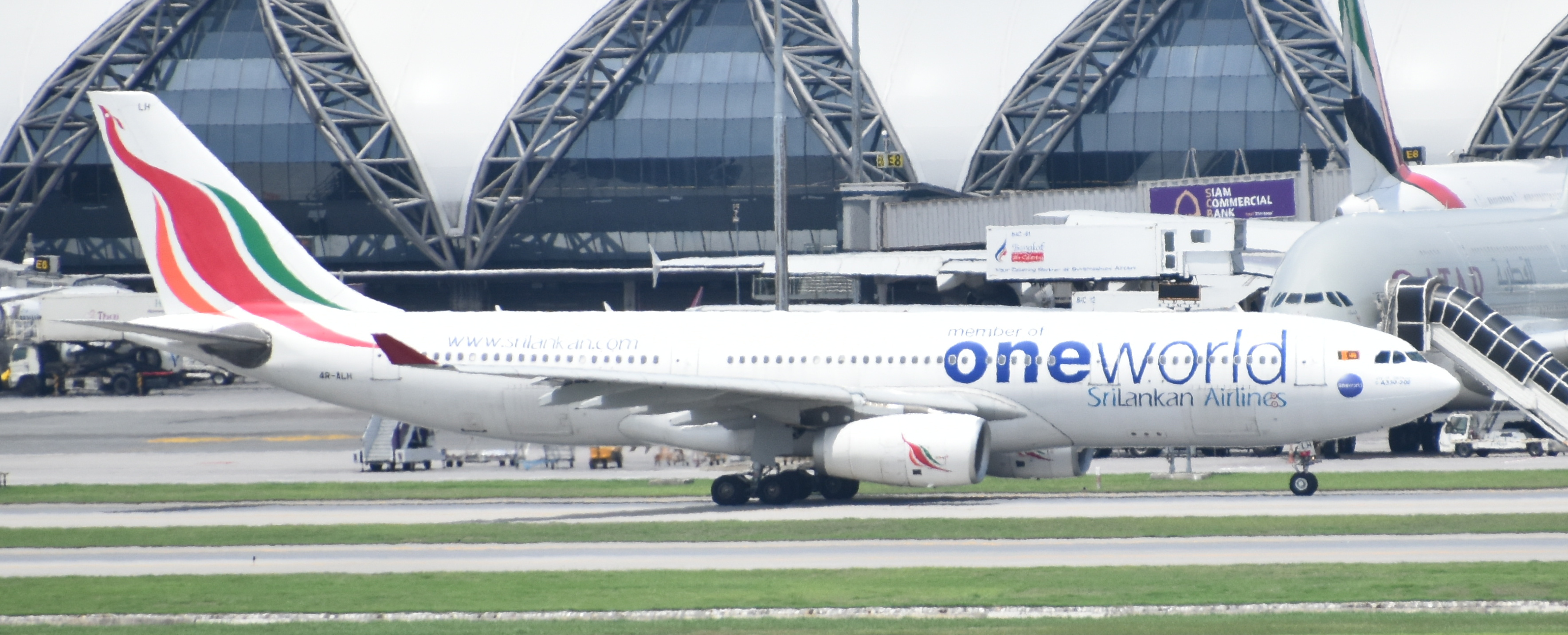 Airbus A330 of SriLankan,with add'l."One World" at Bangkok-BKK,Thailand,08/06/16.